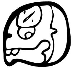 Maya:glyph:logogram:calendric:Tzolkin:Day06:Kimi:codex+W:v01. Img created by CJLL Wright.